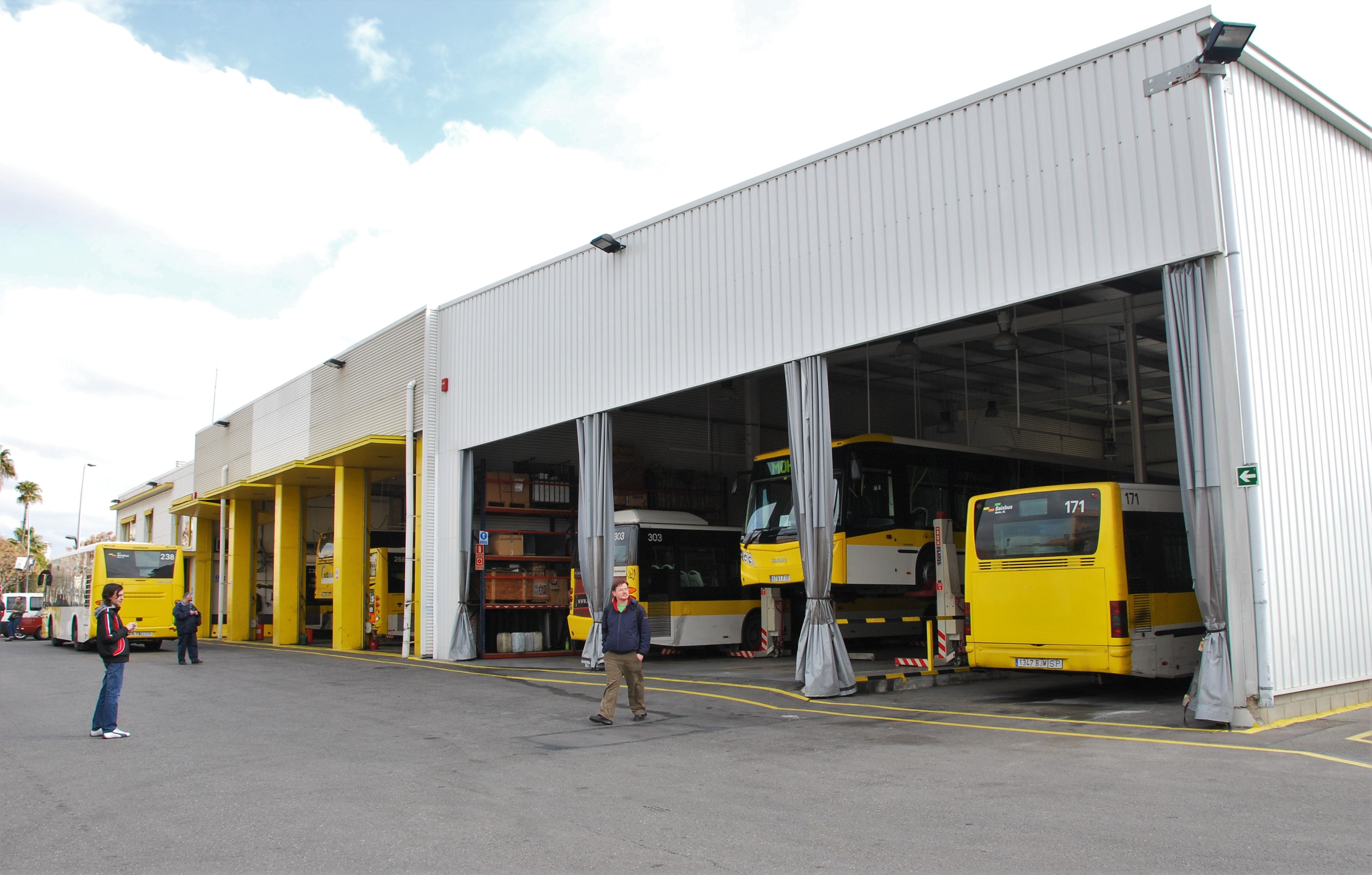 The bus maintenance workshop within the facilities of Mohn S.L. in Viladecans.